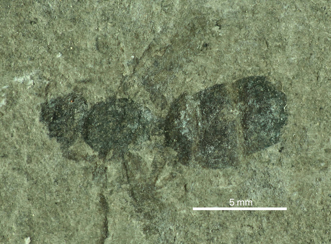 Dorsal view of a Liometopum imhoffii queen, formerly identified by Oswald Heer as a lectotype of Ponera fuliginosa radobojana. Universalmuseum Joanneum Graz specimen UMJ77492 and impression side of specimen UMJ77493. Universalmuseum Joanneum Graz, Styria, Austria. Burdigalian; Radoboj deposits; Radoboj area, Krapinsko-Zagorska, Croatia.